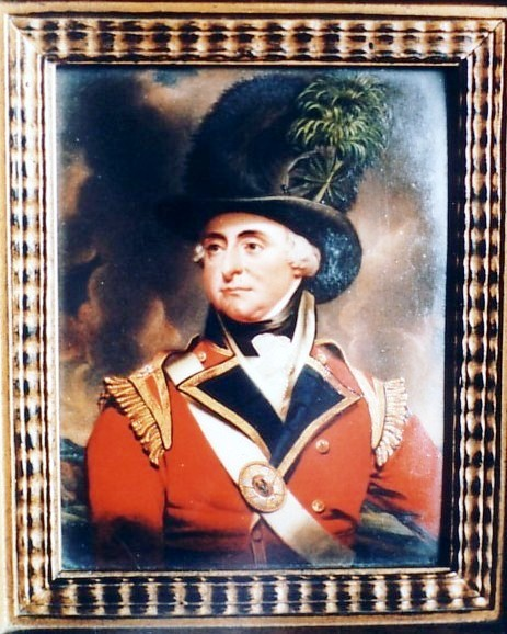 General Robert Manners in the uniform of the Light Company of the 3rd (Scots) Regiment of Foot Guards by Henry-Pierce Bone (1779–1855)